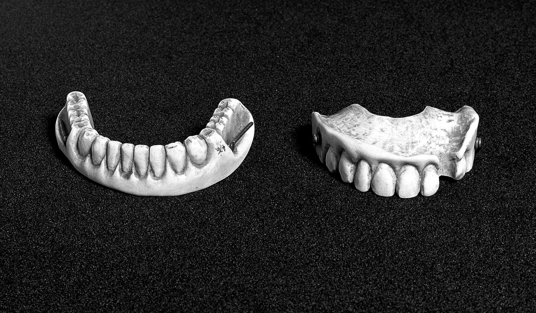 Upper and lower denture. Showing separate plates. Wellcome Images Keywords: 18th century; Dentistry